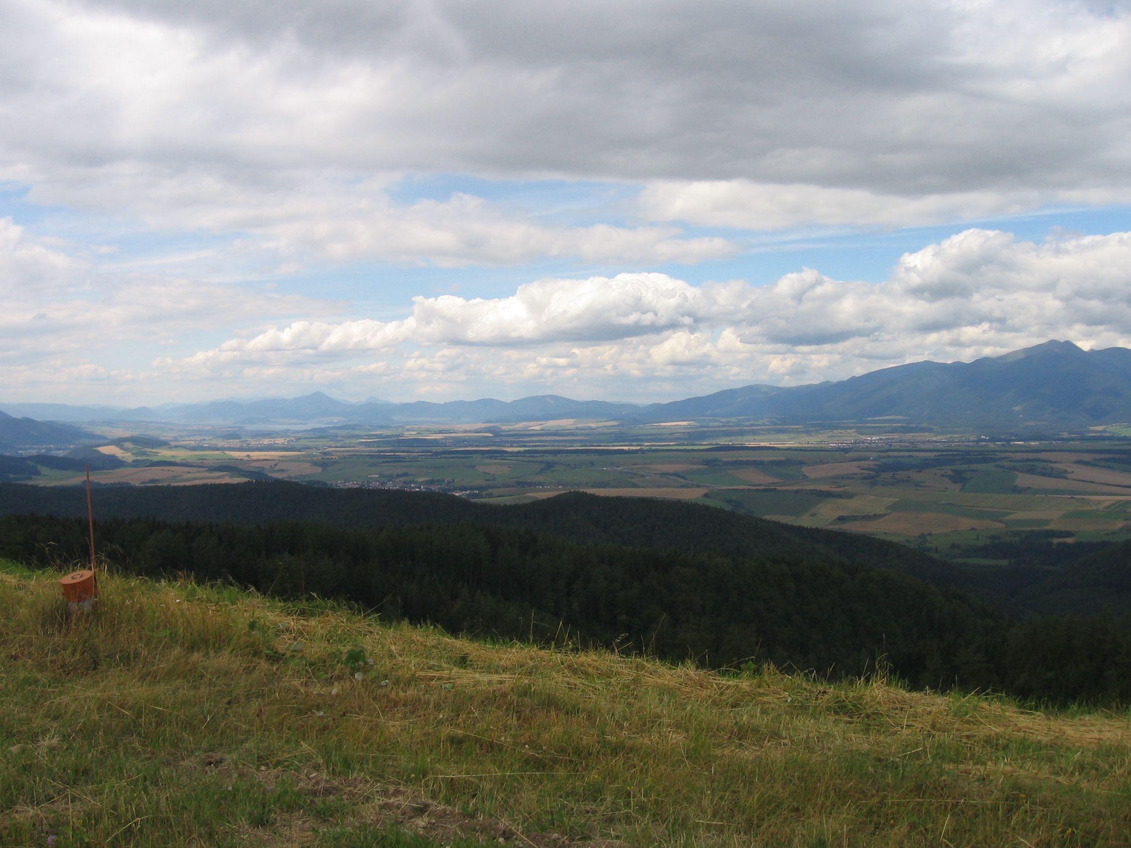 Liptovská kotlina from east.